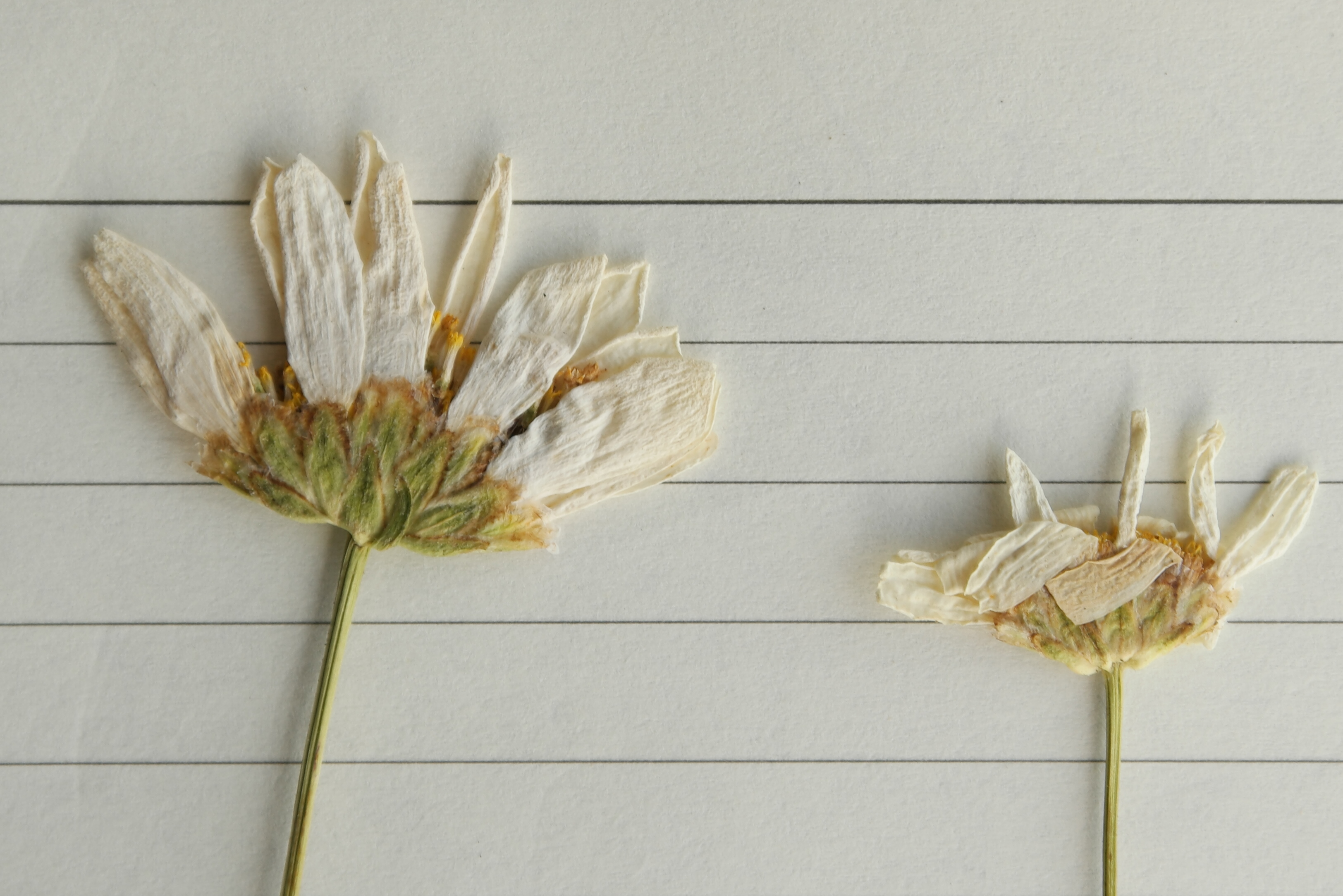 Leucanthemum chloroticum herbarium P.Cikovac col. 08 02 2016 Bijela gora Opuvani do